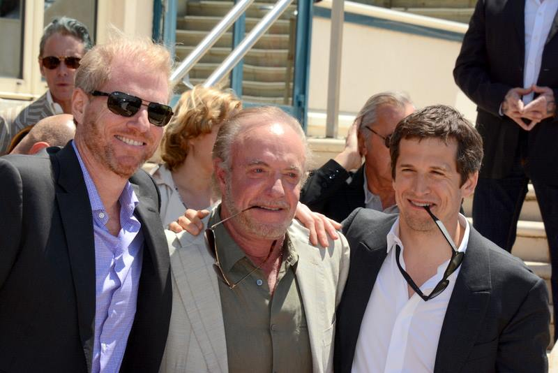 Noah Emerich, James Caan and Guillaume Canet at the Cannes Film Festival, promoting the film "Blood Ties".